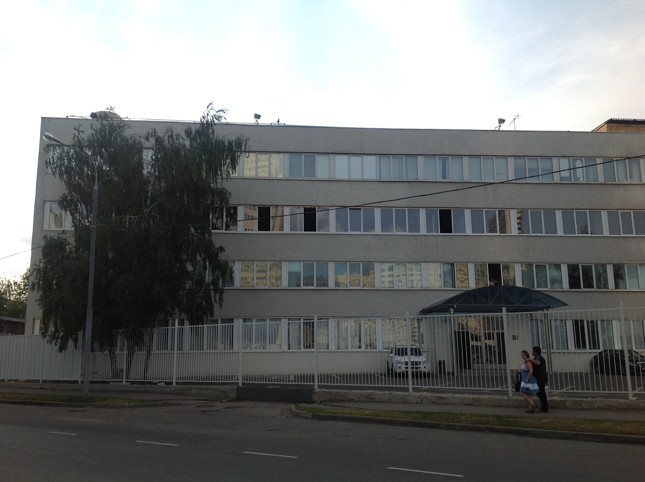 10B, Namyotkin street, Moscow, Russia. Honorary Consulate of Kyrgyzstan in Moscow Region.